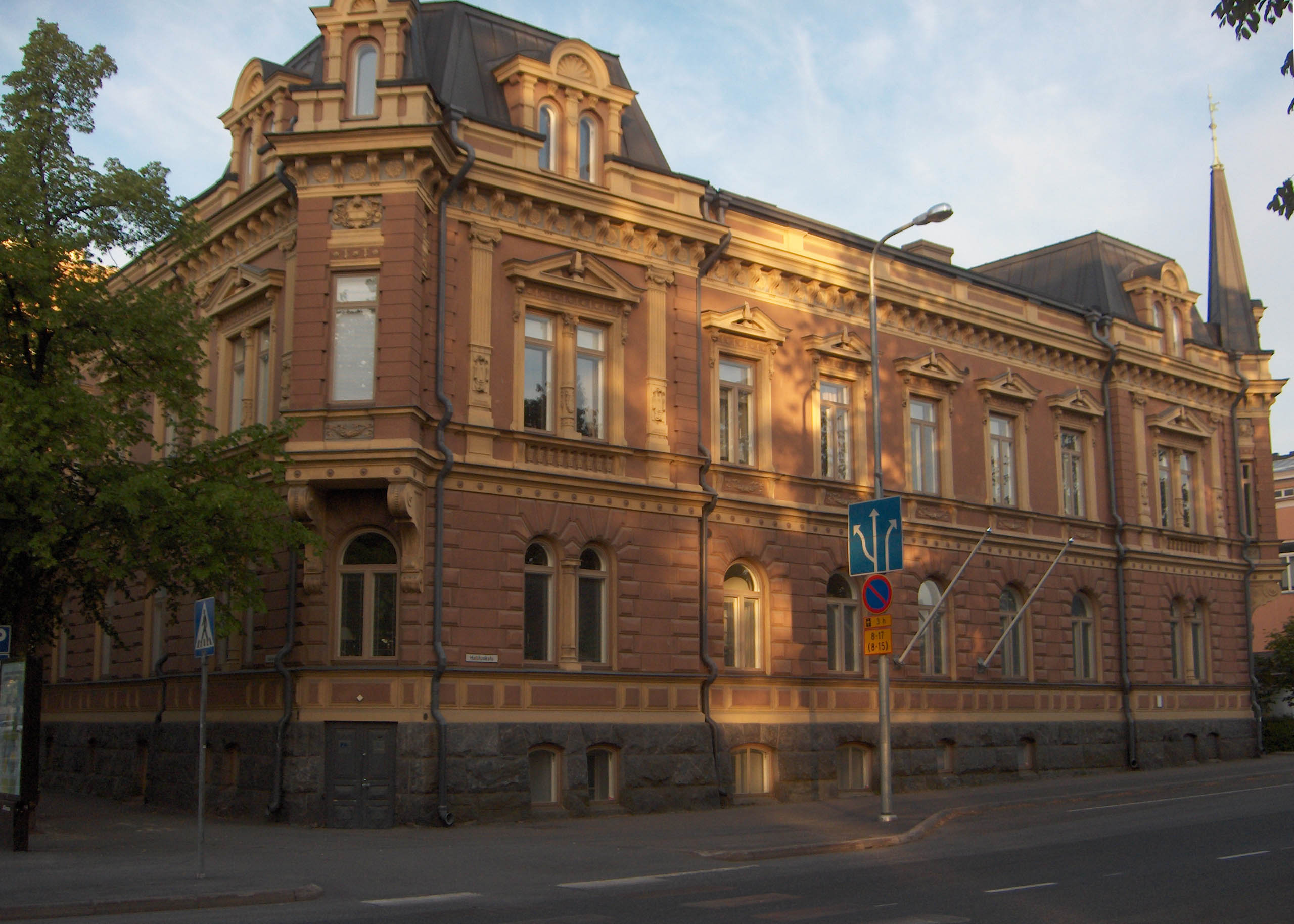 "Signelinna" (also known as "Newanderin talo", Newander House), residential building in the city of Pori, Finland. Designed by architect Signe Hornborg (1862–1916).